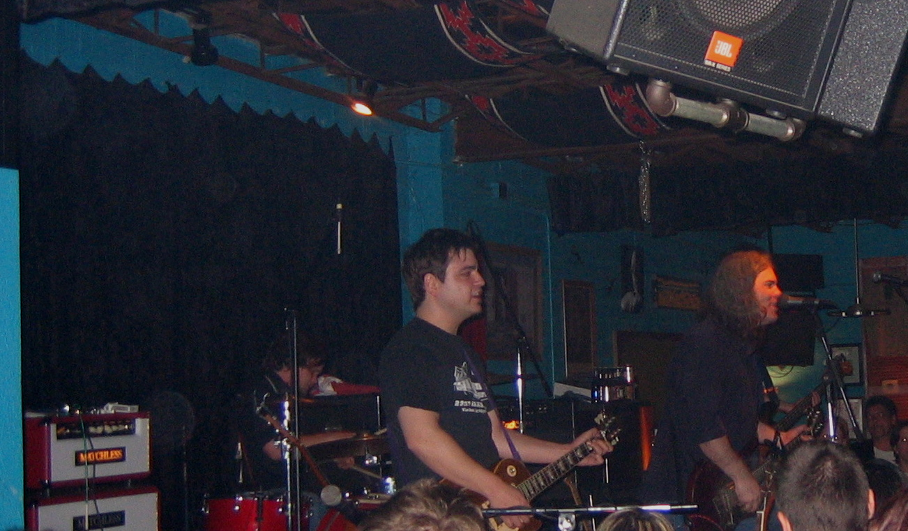 Jess Barr and Brent Best of Slobberbone. This photo was taken at Slobberbone's farewell show at Dan's Silverleaf in Denton, TX on March 13, 2005.